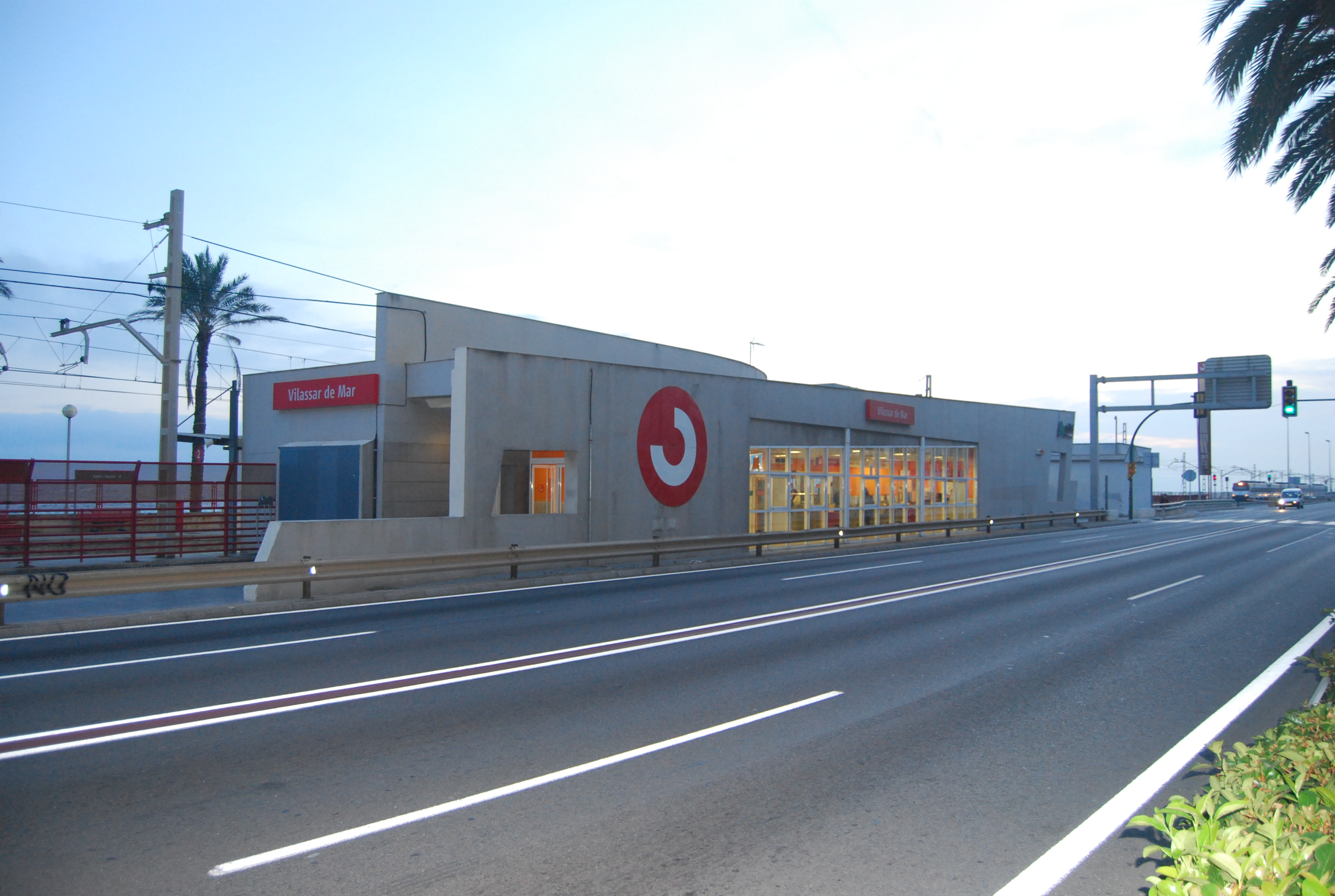 Vilassar de Mar, El Maresme, (Catalunya) train station.